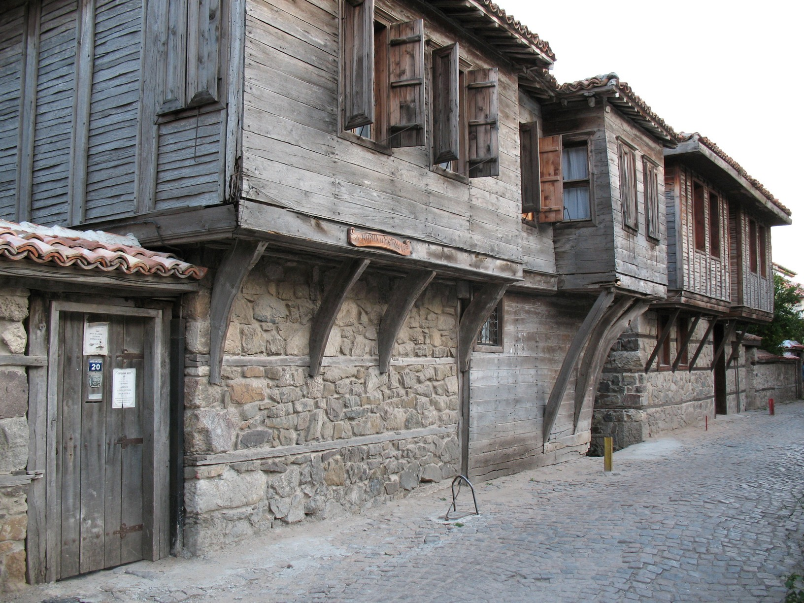 Houses of the Sozopol / Созопол